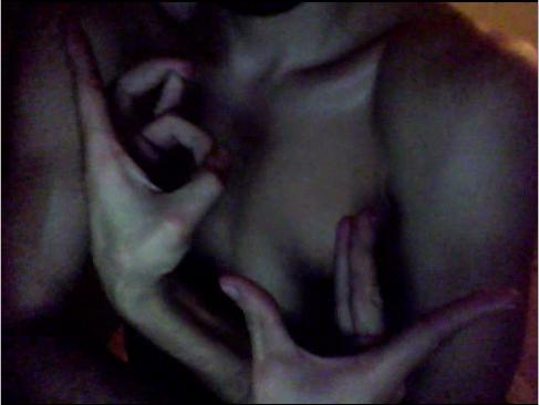 a hand signal for demonstrational purposes